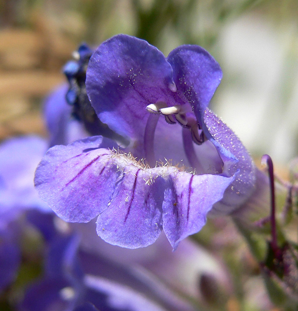 Penstemon leiophyllus var. keckii on the ski slope, Lee Canyon, Spring Mountains, southern Nevada (elev. about 2700 m)